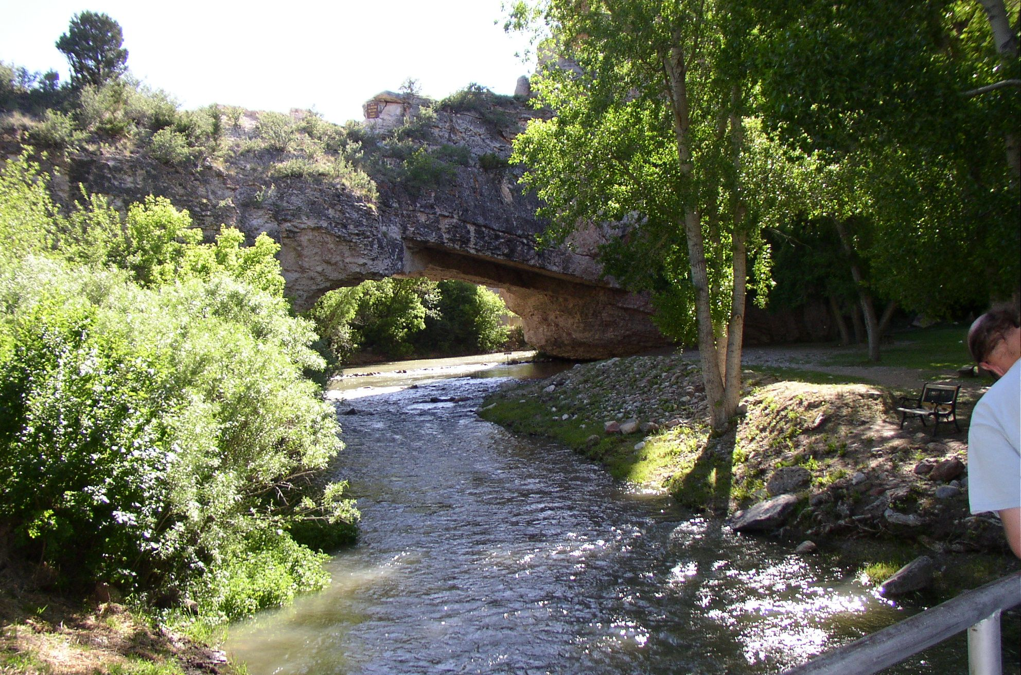 Ayres Natural Bridge Park is a county park in Converse County, Wyoming in the United States.